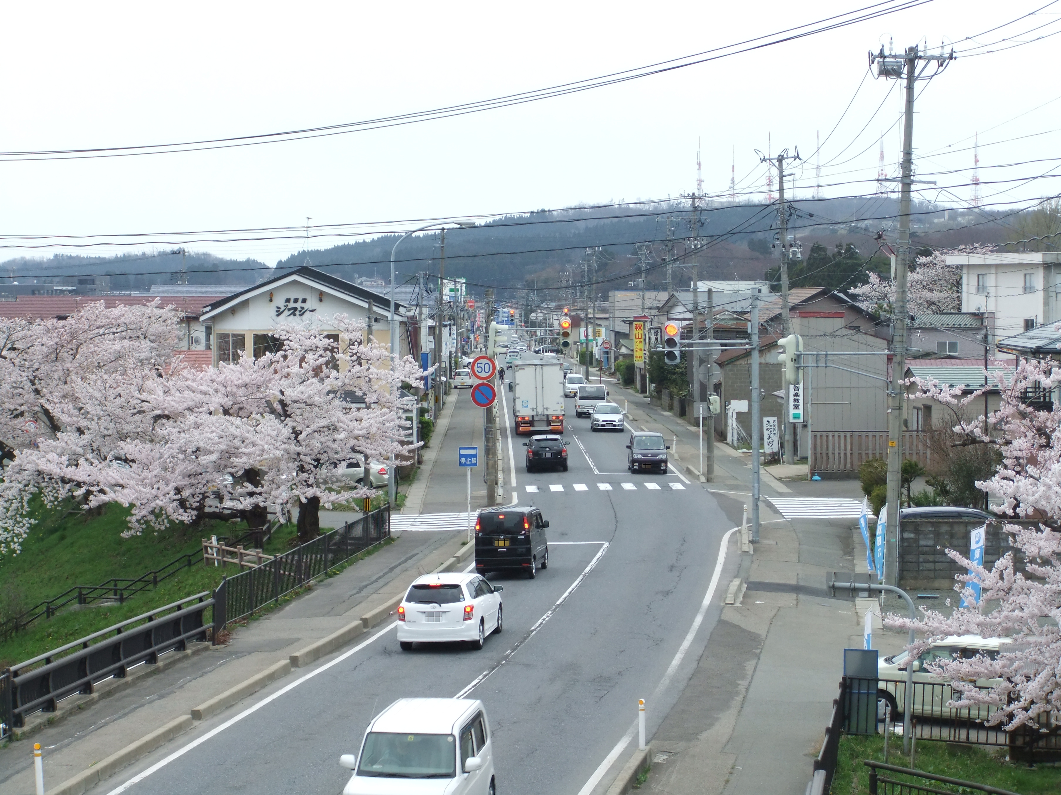 Akita Prefectural Road #56 at Araya-ookawa-mati, for the south.